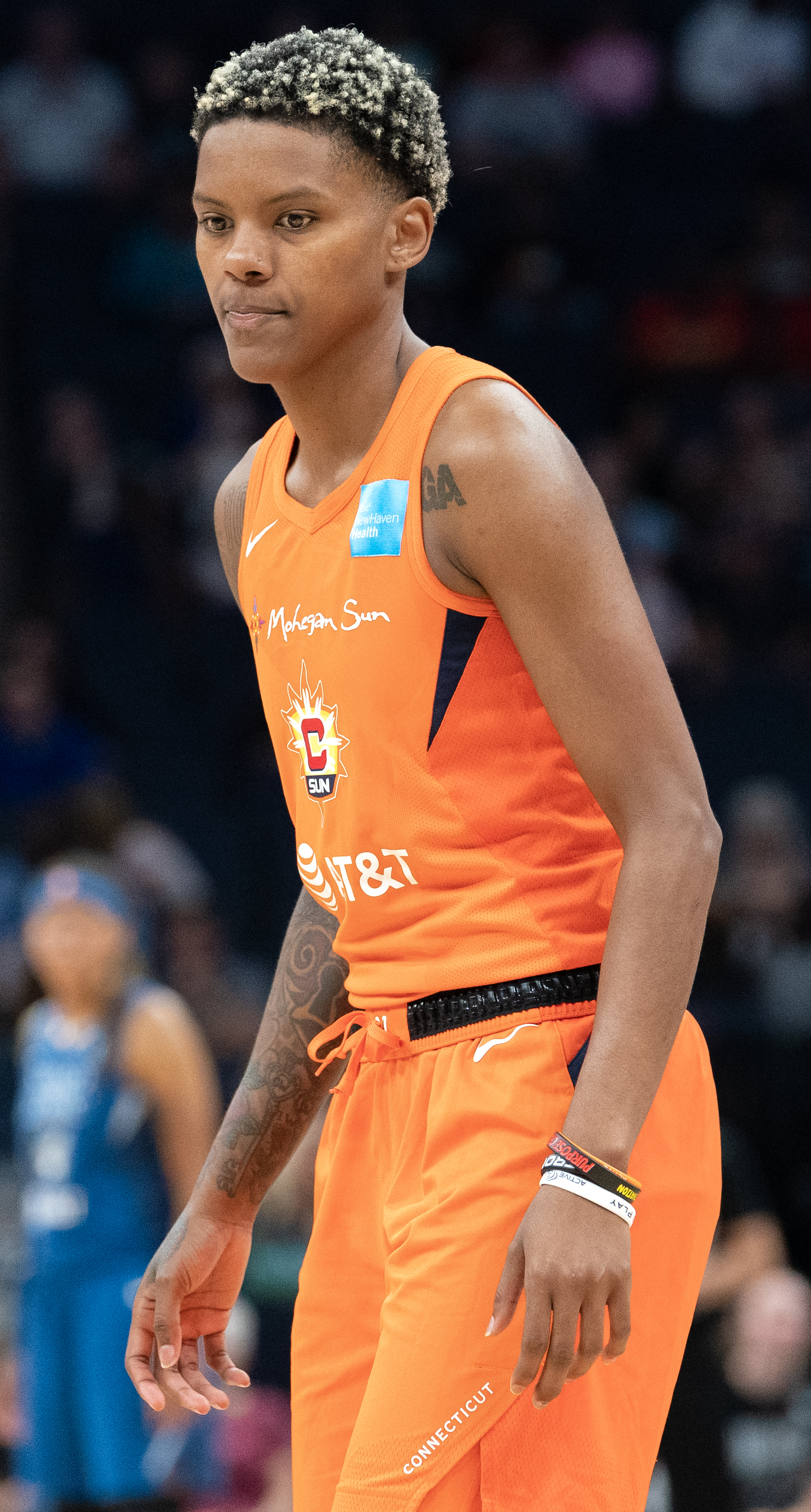 Connecticut Sun player Courtney Williams in a game against the Minnesota Lynx